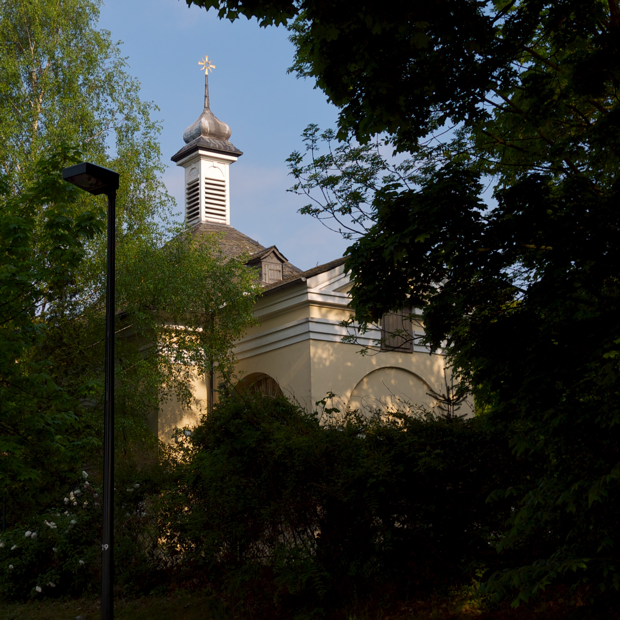 Jan Wellem Chapel in Düsseldorf-Hamm, Germany